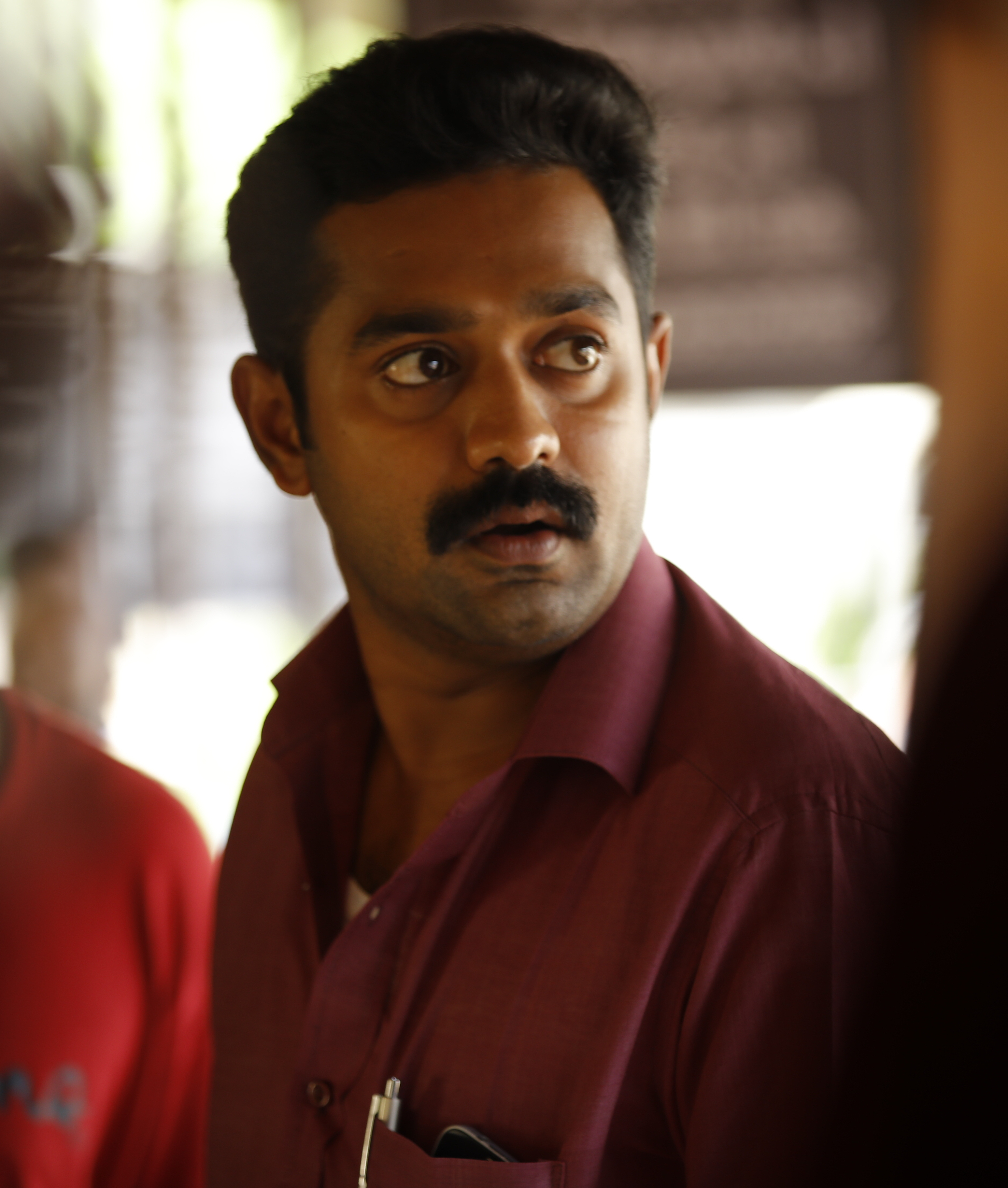 Asif Ali in Kakshi Amminippilla